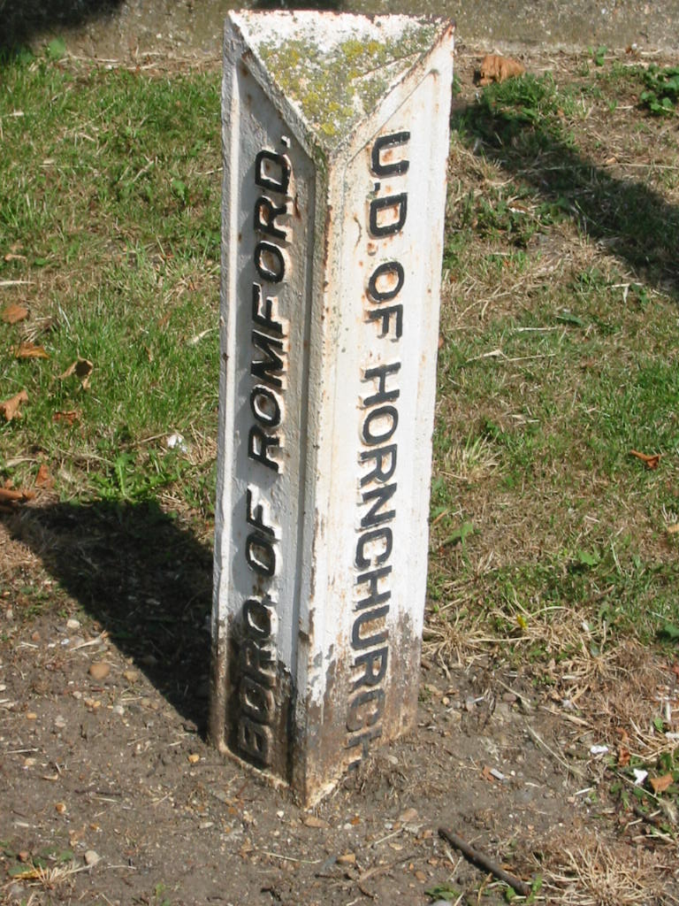 Photograph of boundary marker of Hornchurch/Romford